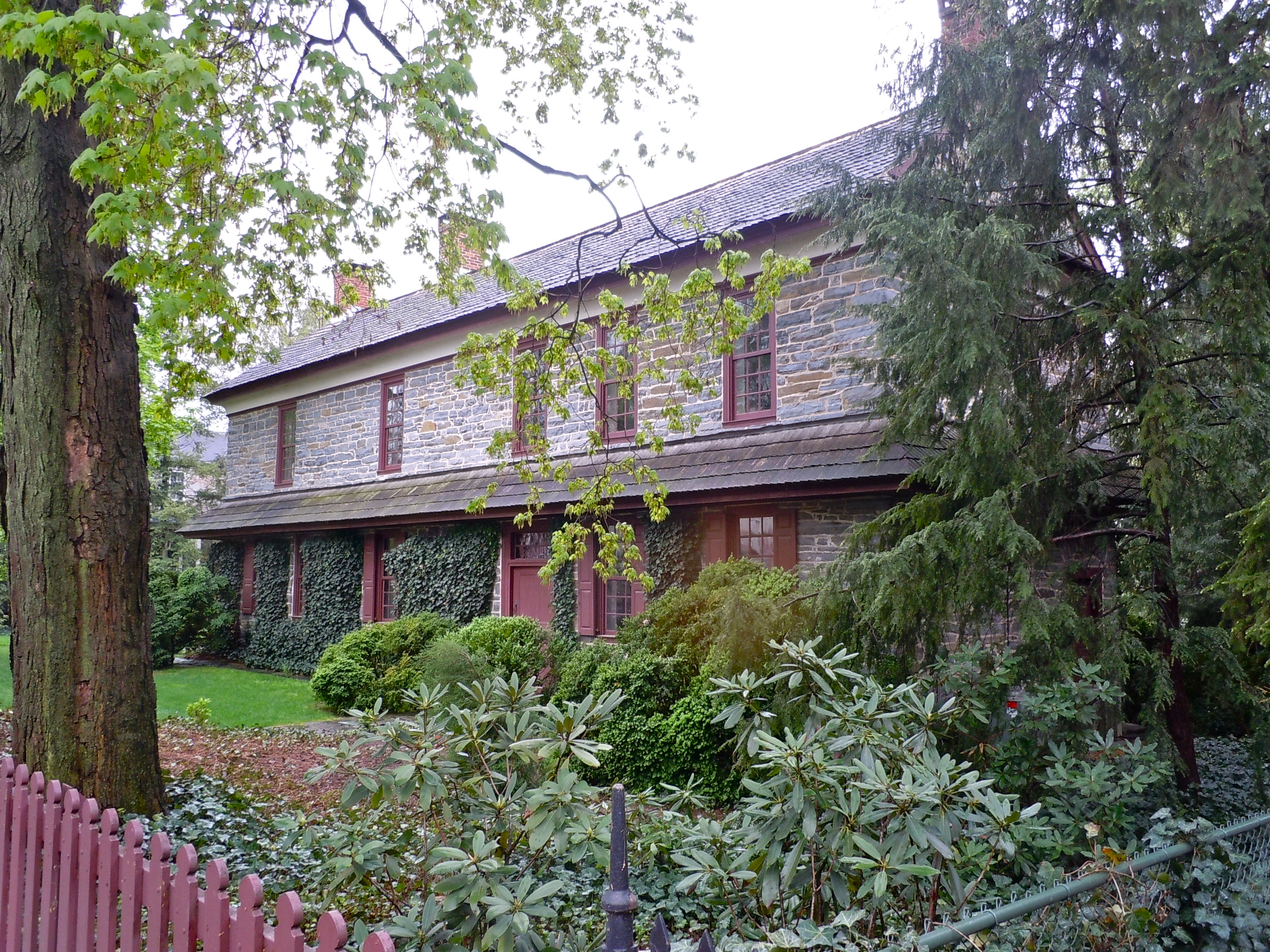 Wright's Ferry Mansion on the NRHP since November 20, 1979. At 38 South 2nd Street, Columbia, Lancaster County, Pennsylvania. Related to the historic ferry crossing of the Susquehanna Rivers from Columbia to Wrightsville. Sorry for the low quality photo: I'll go back and get a better one.